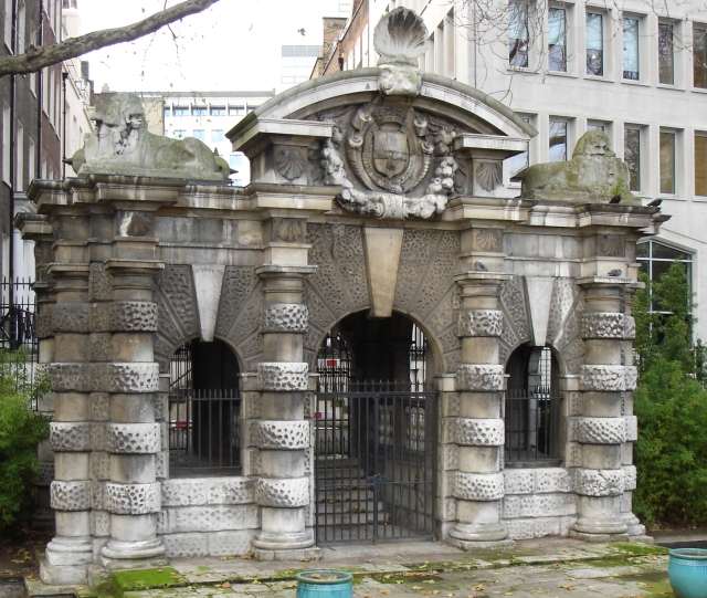 Photo taken by lonpicmen York Water Gate Victoria Embankment Gardens Victoria Embankment London York House Water Gate, often attributed to Nicholas Stone (1586/87 – 1647).